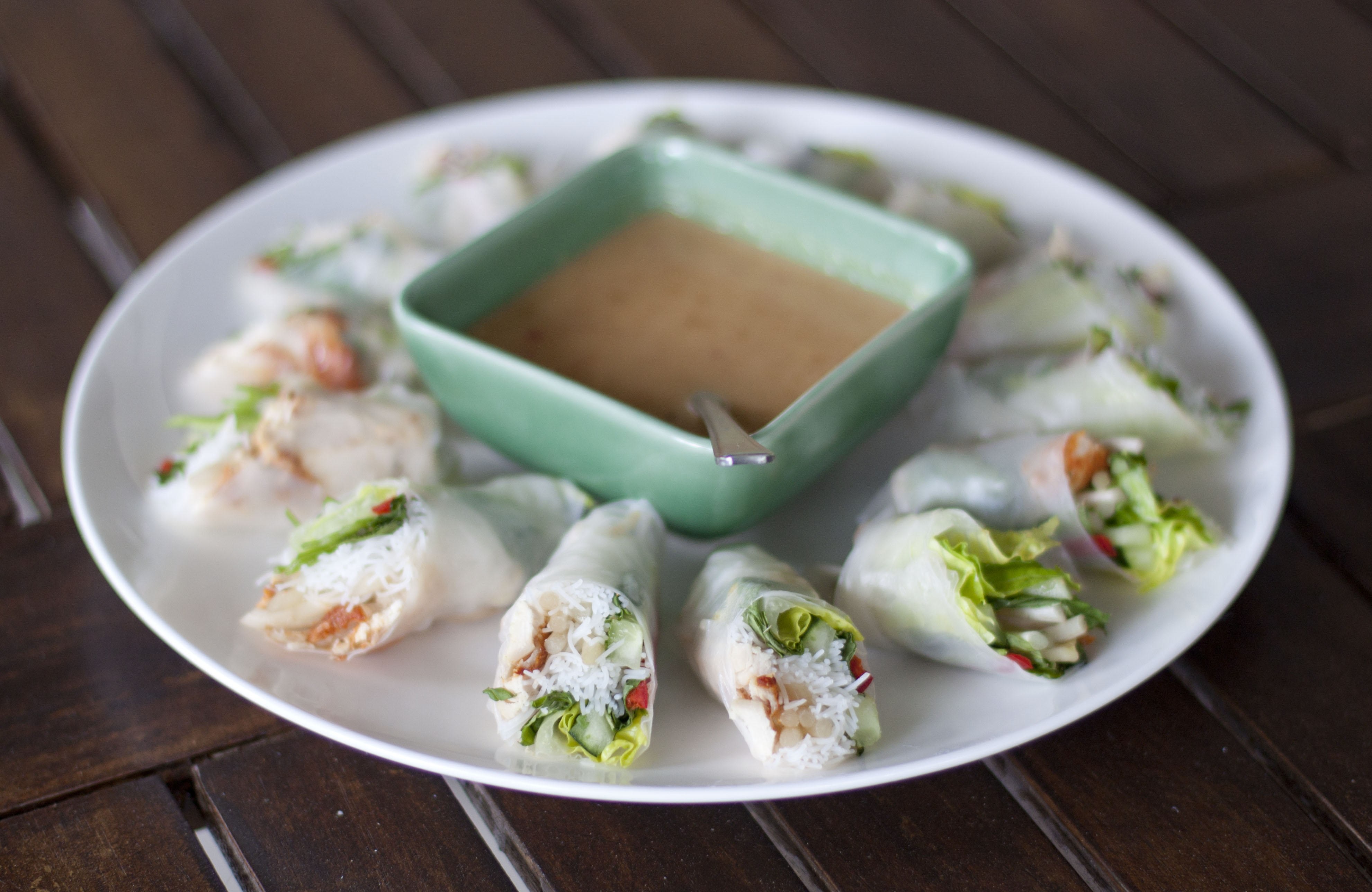 Summer rolls served with peanut sauce; the inner structure is clearly visible